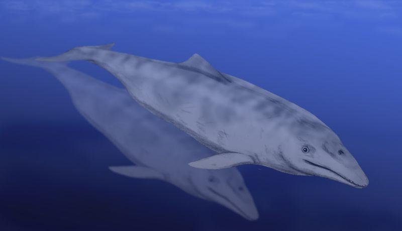 Aetiocetus cotylalveus, an early baleen whale from the Late Oligocene of Oregon, pencil drawing, digital coloring